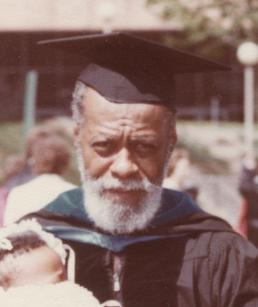 Photo of Dr. Edward W. Crosby at a graduation ceremony in the mid 1980's.